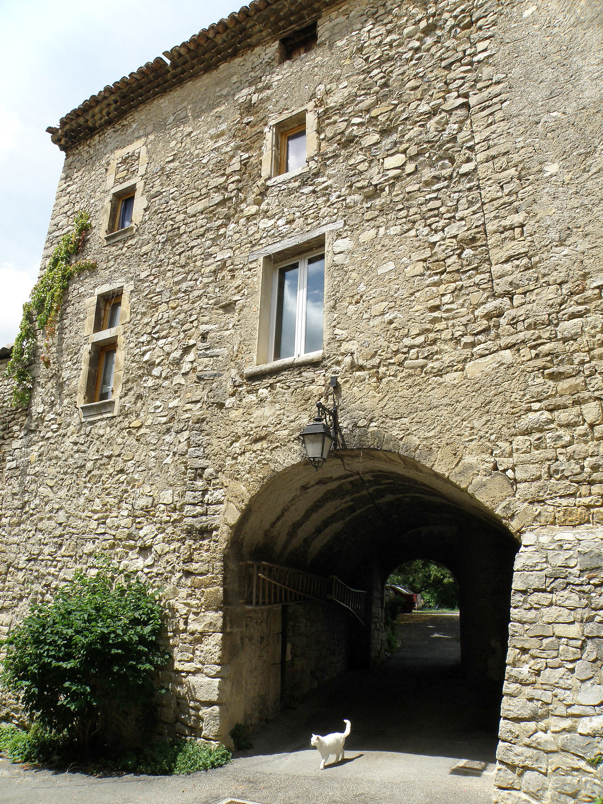 Sainte-Euphémie-sur-Ouvèze (comm. de la Drôme, France). Maison patricienne à l'entrée ouest du bourg, avec passage voûté (soustet), façade côté ville.